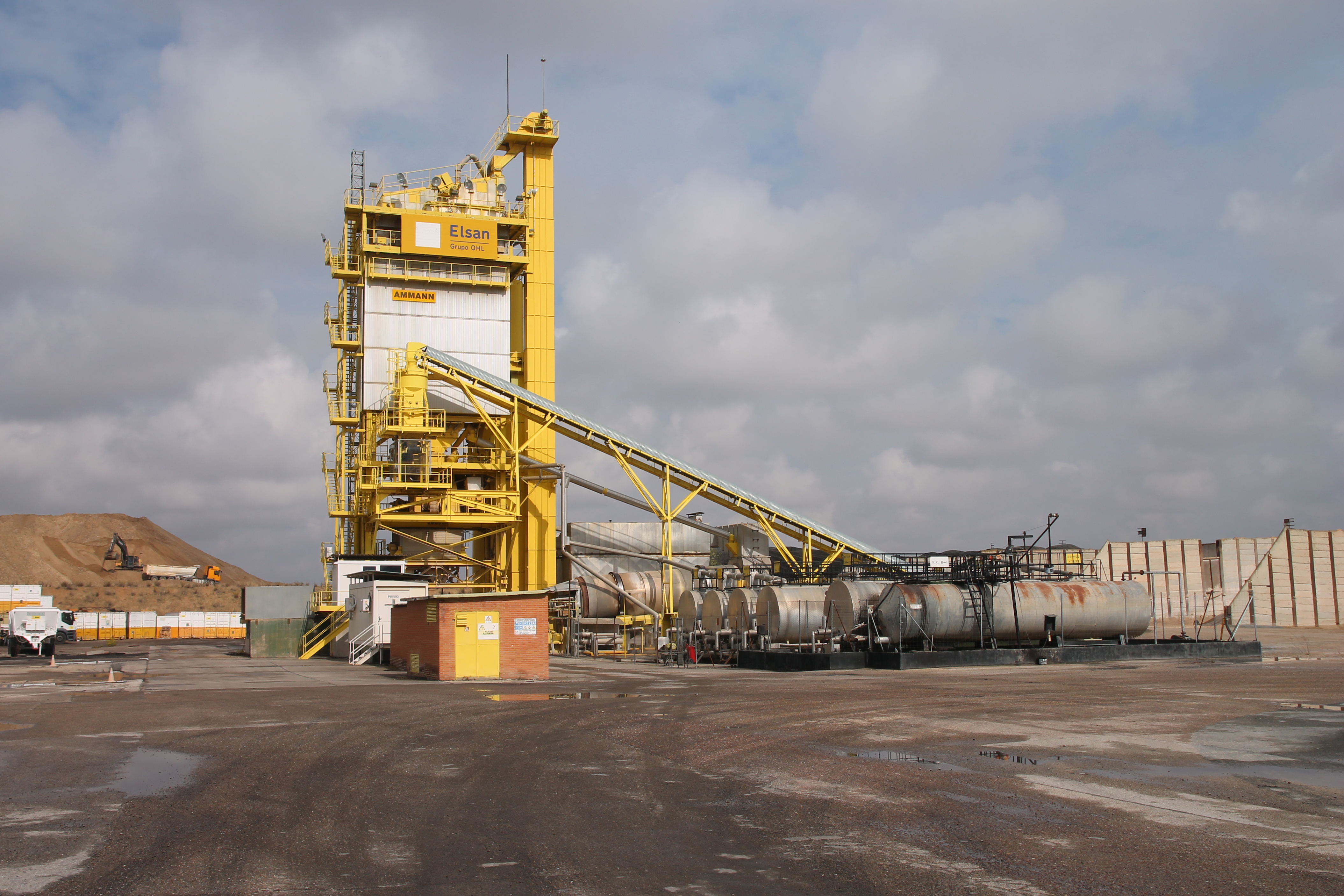 Asphalt plant in Arganda del Rey